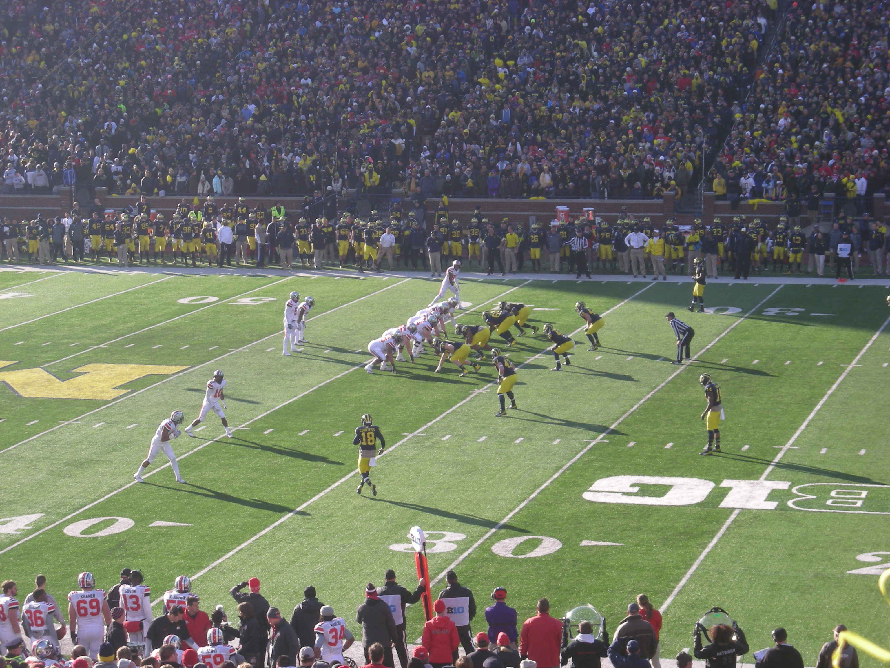 Ohio State on offense during the Ohio State Buckeyes vs. Michigan Wolverines football game at Michigan Stadium in Ann Arbor, Michigan (United States). Ohio State won 42–41.